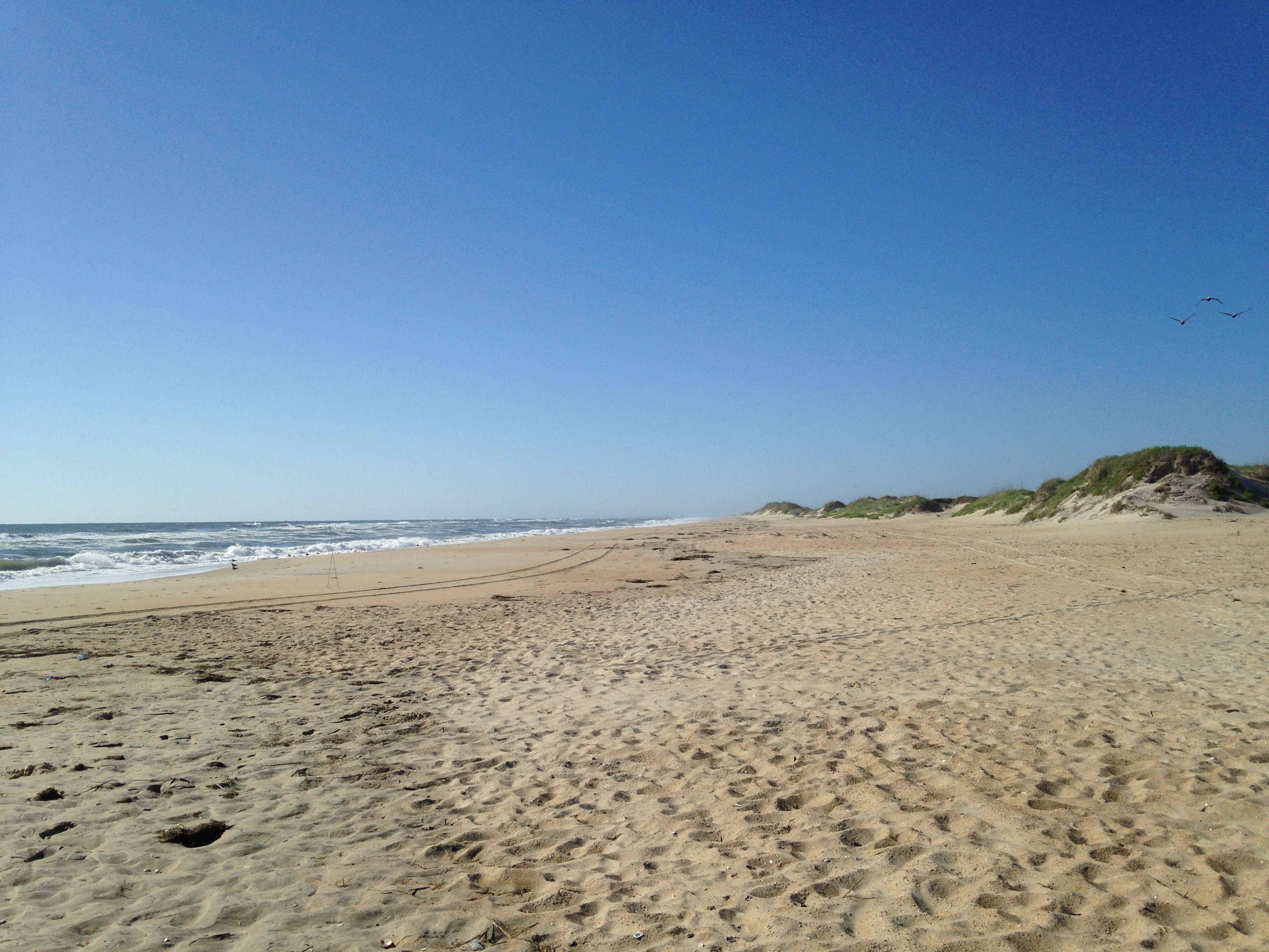 Cape Hatteras National Seashore near Avon, North Carolina